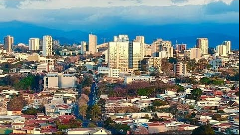 West side area of the city of San José.